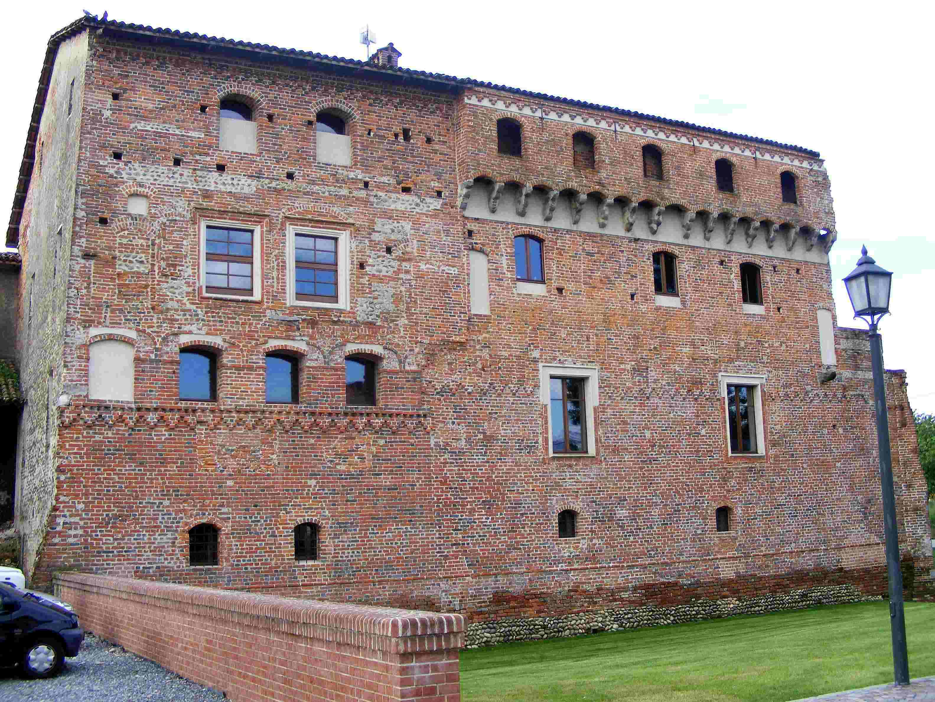 Castle of Verrone (BI), as seen from North